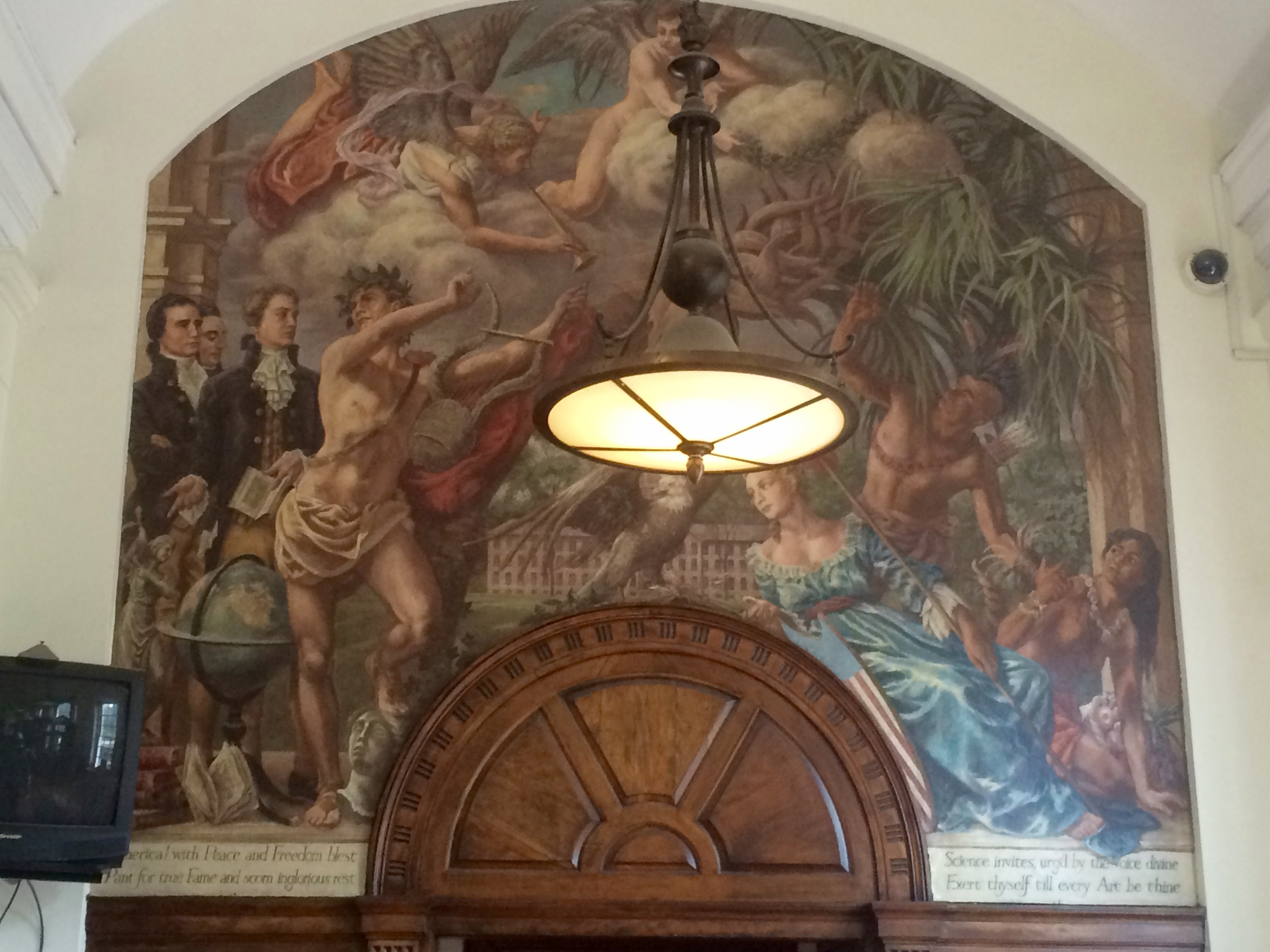 Columbia under the Palm, 1939 by Karl Free. A mural in the Post Office of Princeton, New Jersey commissioned by the Section of Painting and Sculpture during the New Deal.